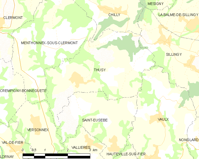 Map of French municipality Thusy